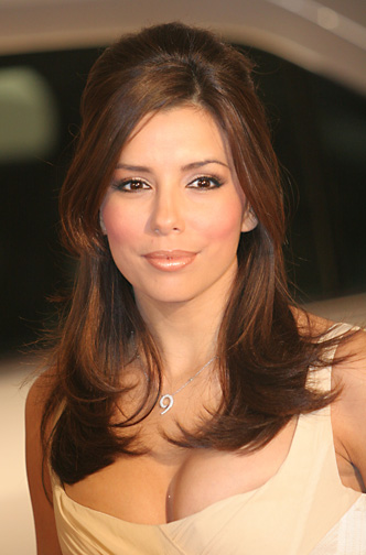 Actress Eva Longoria from Desperate Houseviwes. Photo by Rafael Amado Deras.